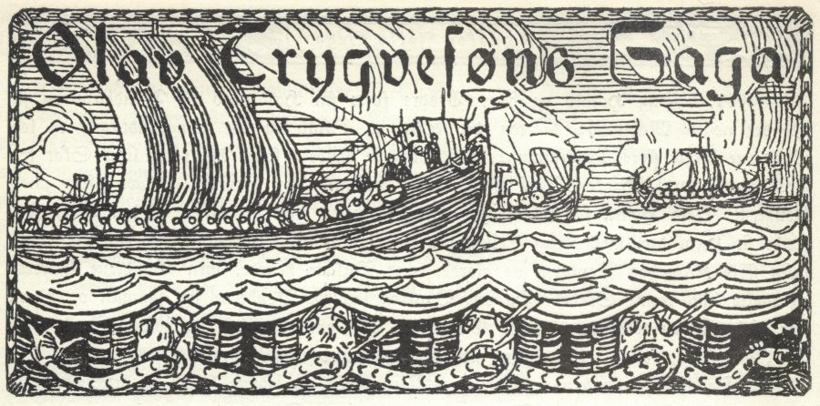 Gerhard Munthe: Illustration for Olav Tryggvasons saga, Heimskringla 1899-edition. Tittelfrise.